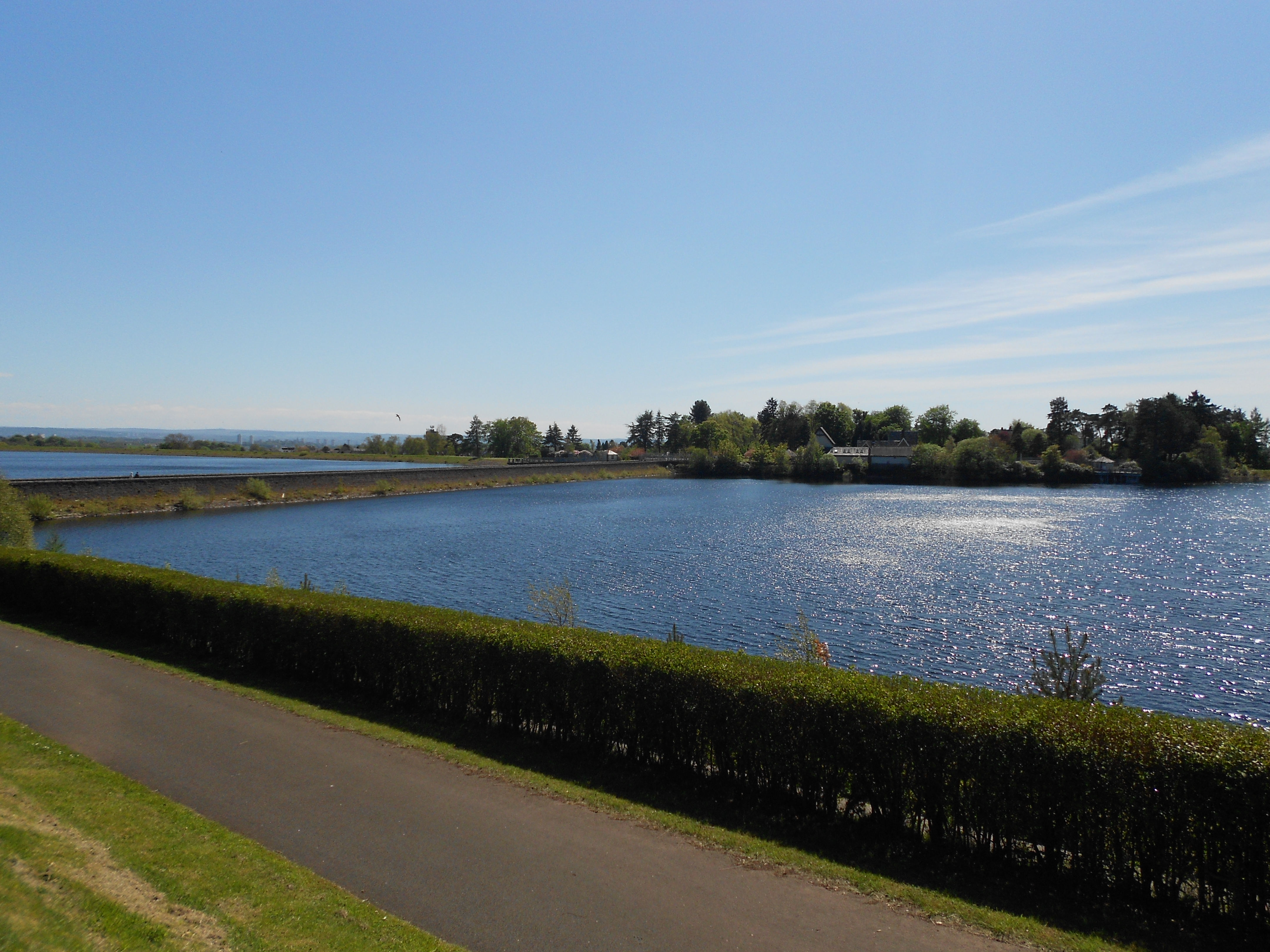 Looking across Mugdock/Craigmaddie.